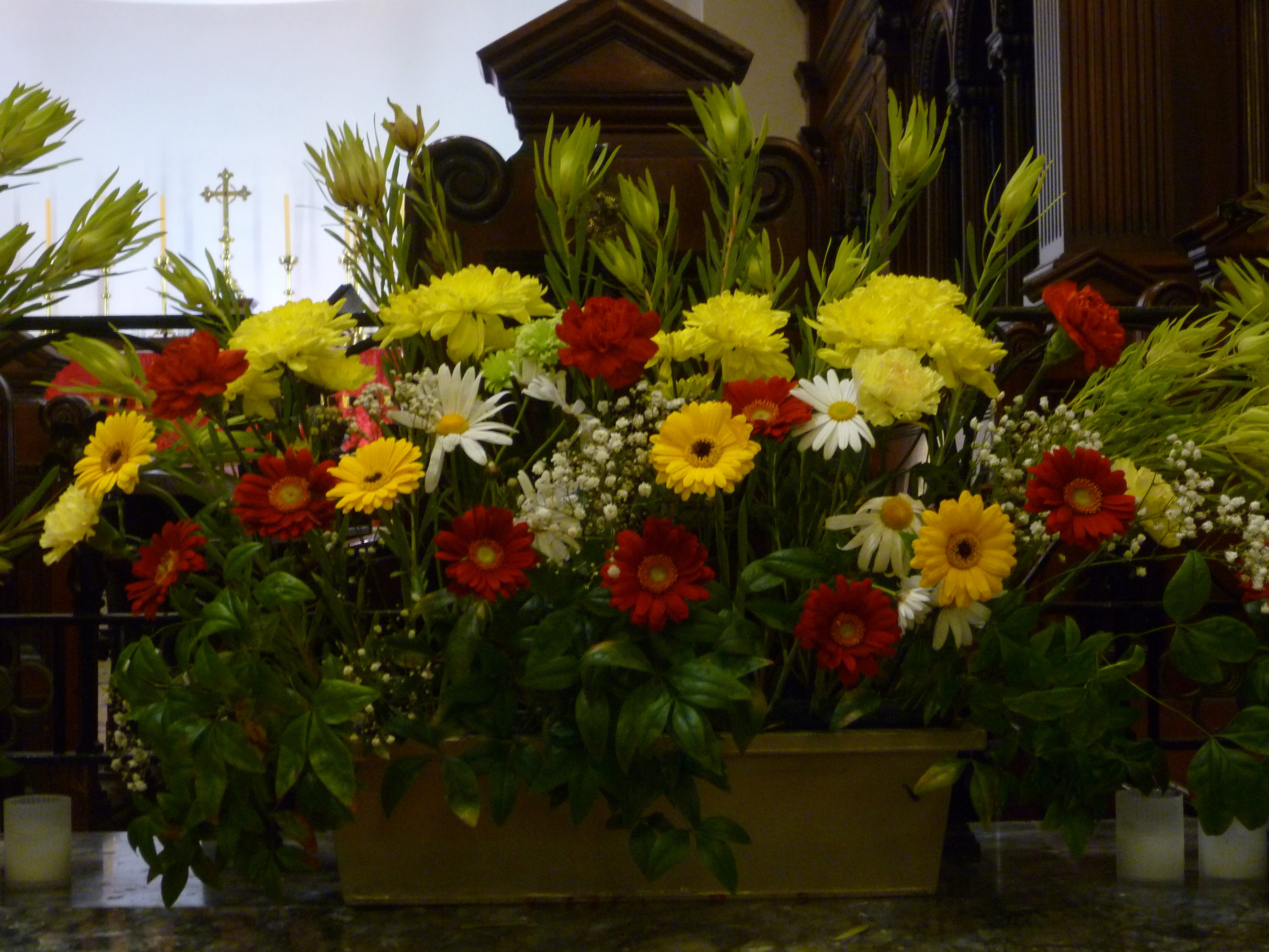 Flower arrangement in front of the altar in St James' Church, Sydney